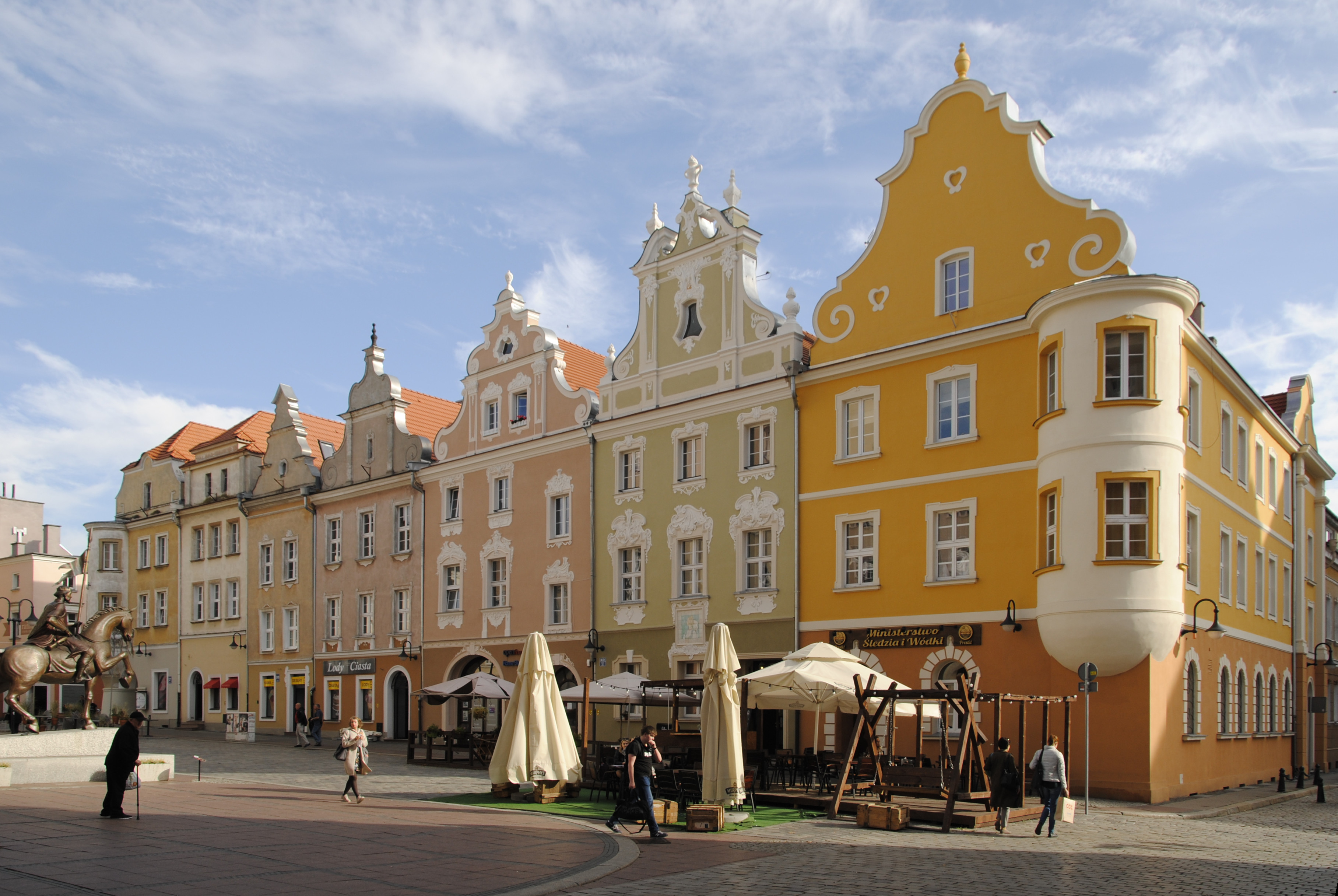 Market Square in Opole, Southside